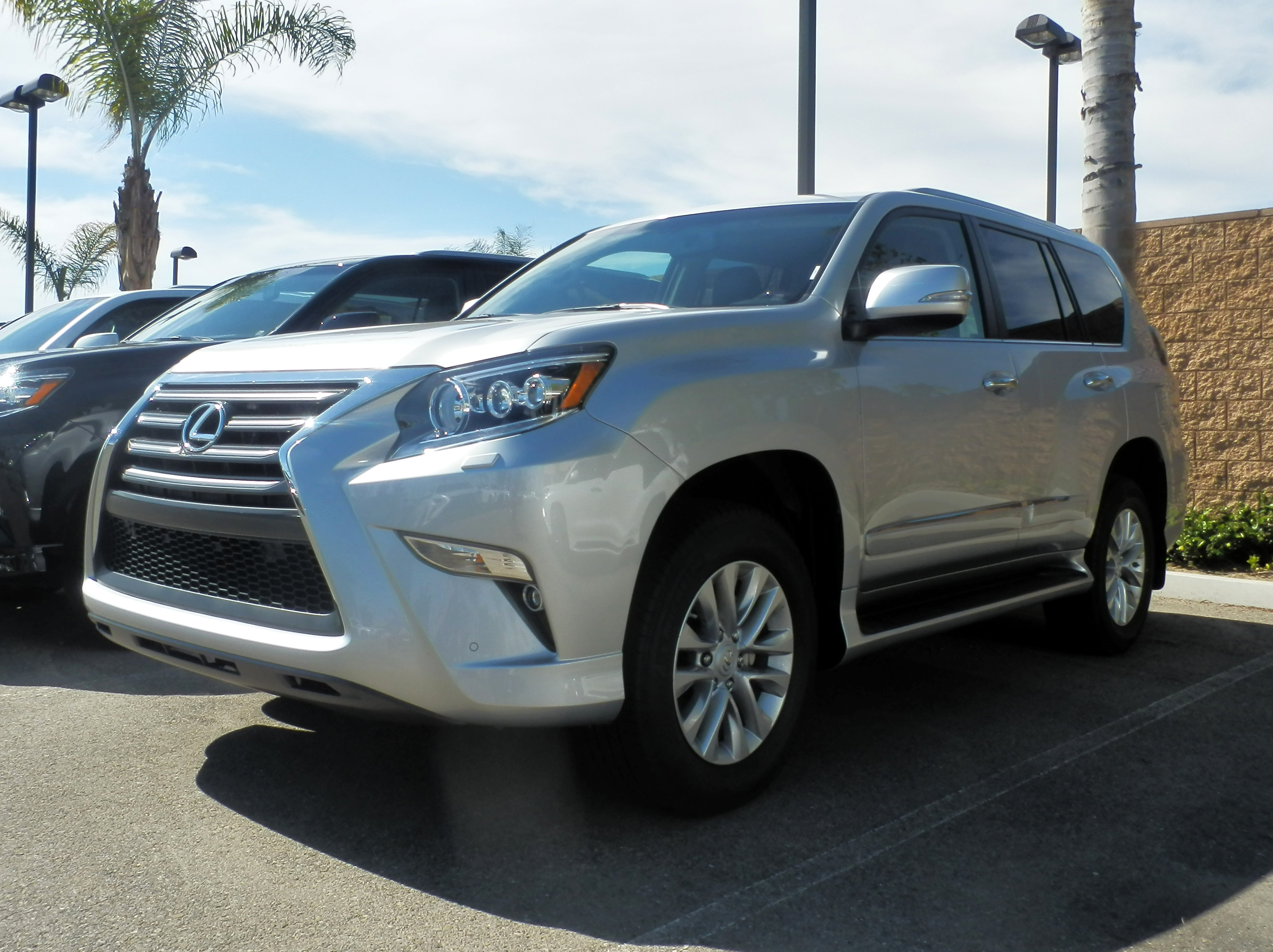 Lexus GX in Bakersfield